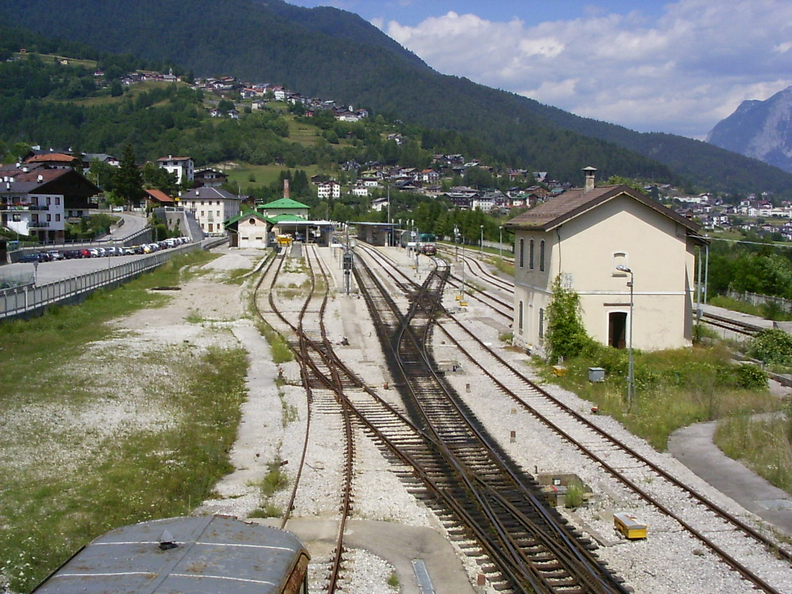 Calalzo-Pieve di Cadore-Cortina train station